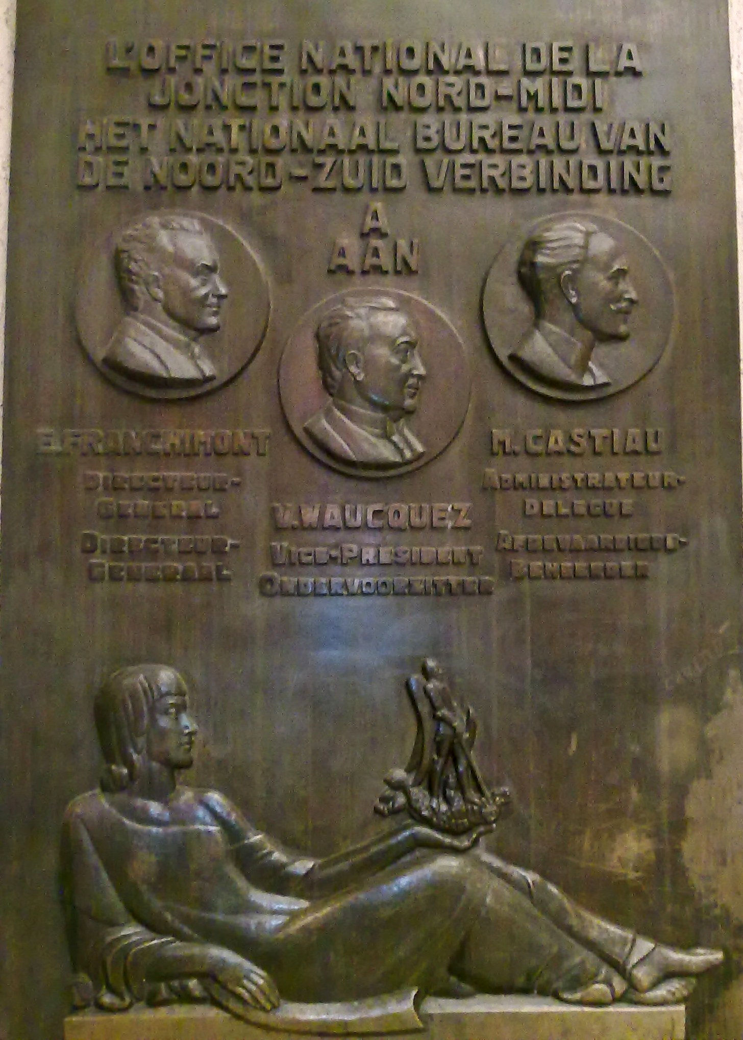 Memorial plaque to the Board of the Office National de la Jonction Nord-Midi, Brussels train junction.